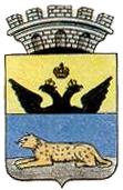 Russian Coat of Arms of Homiel, 1855